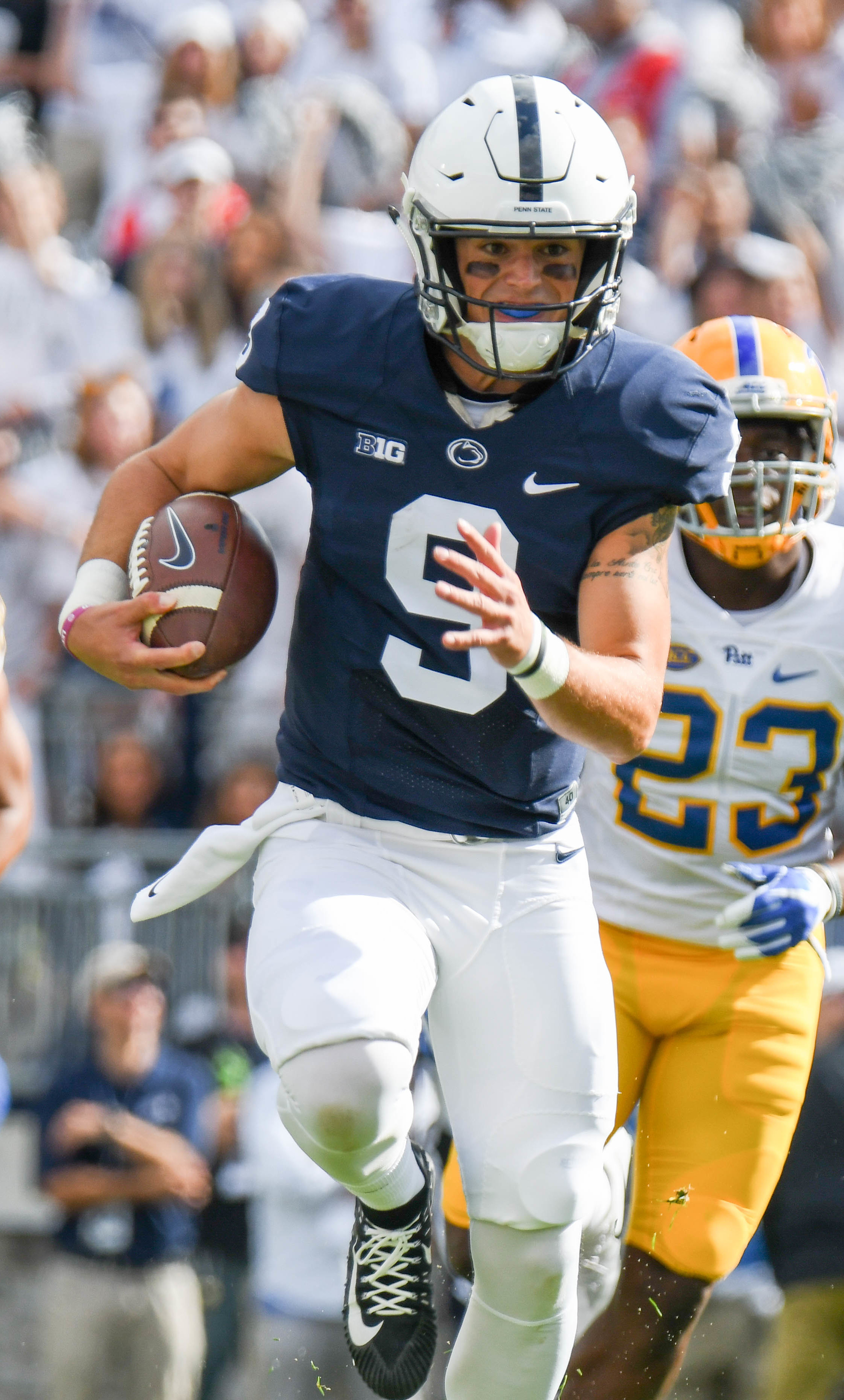 Trace McSorley. September 9, 2017